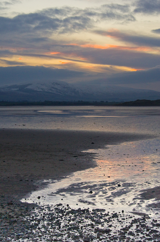 Culleenamore, Ballysadare Bay, low tide, winter, Co Sligo, northwest Ireland